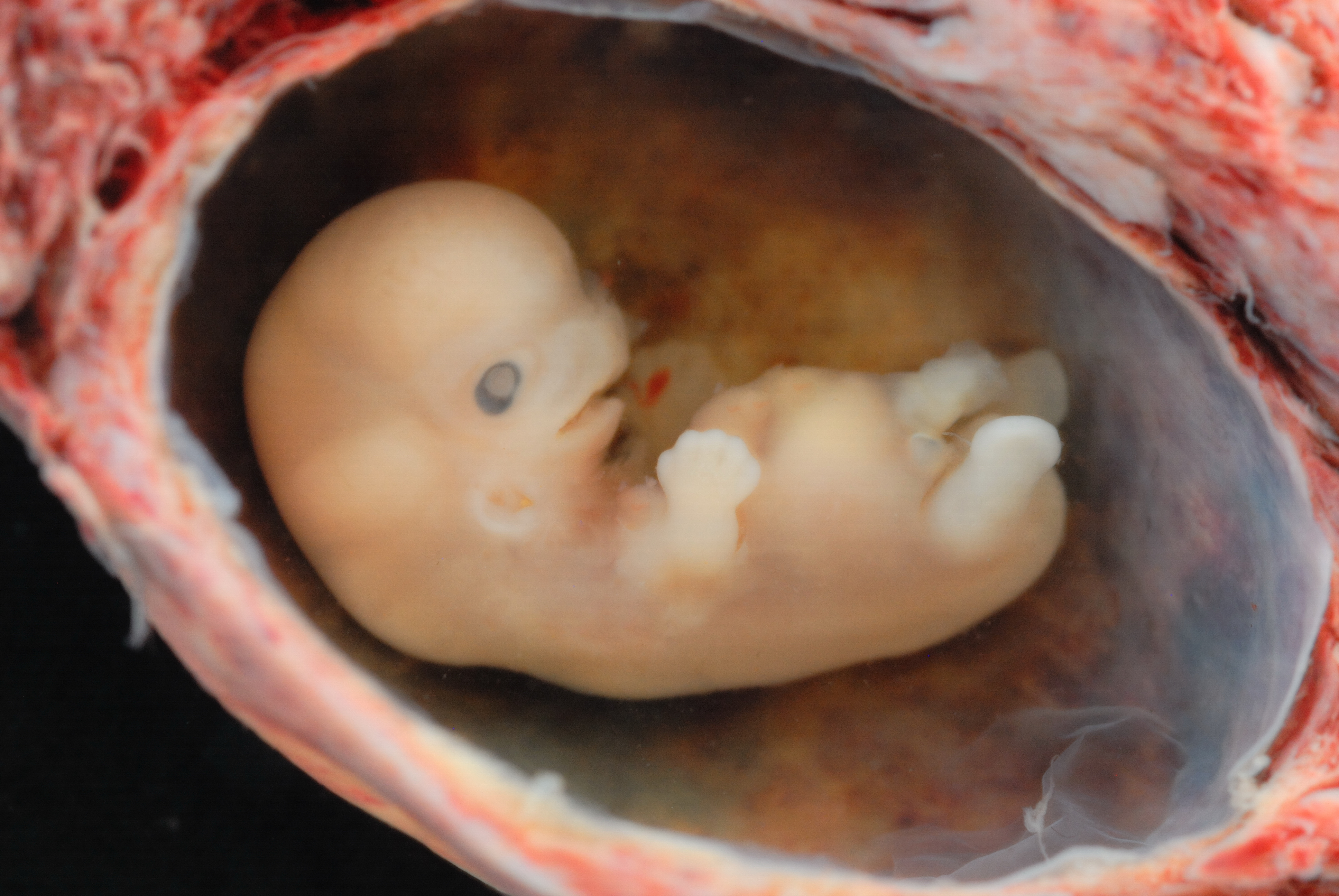 Approximately 6 weeks from conception, i.e. 8 weeks from LMP. Shot with 105 mm Micro-NIKKOR lens with 2 off camera SB-800's. Specimen is submerged in alcohol. This is a spontaneous (ie. not a termination) abortion. It was extruded intact with the gestational sac surrounded by developing placental tissue and decidual tissue. This was carefully opened to avoid damaging the embryo.